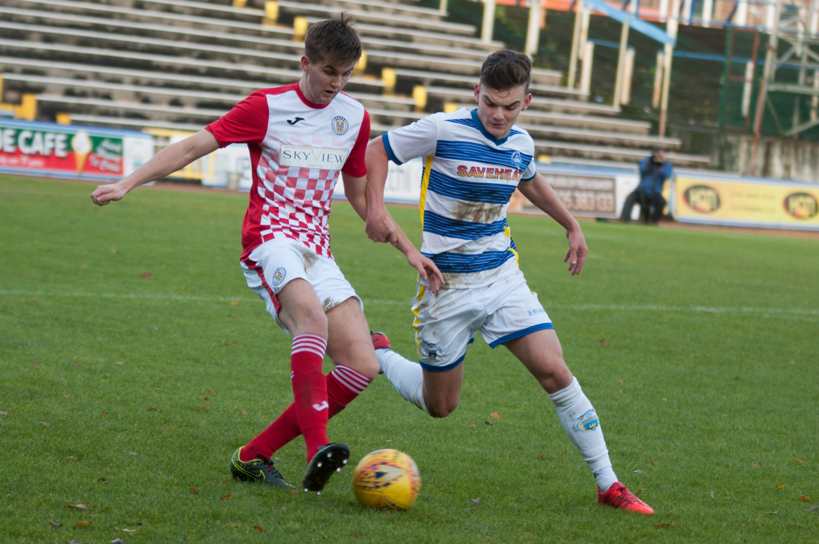 Ben Armour (RIGHT) In action against St Mirren Reserves - PHOTO: Ryan Scott Photography